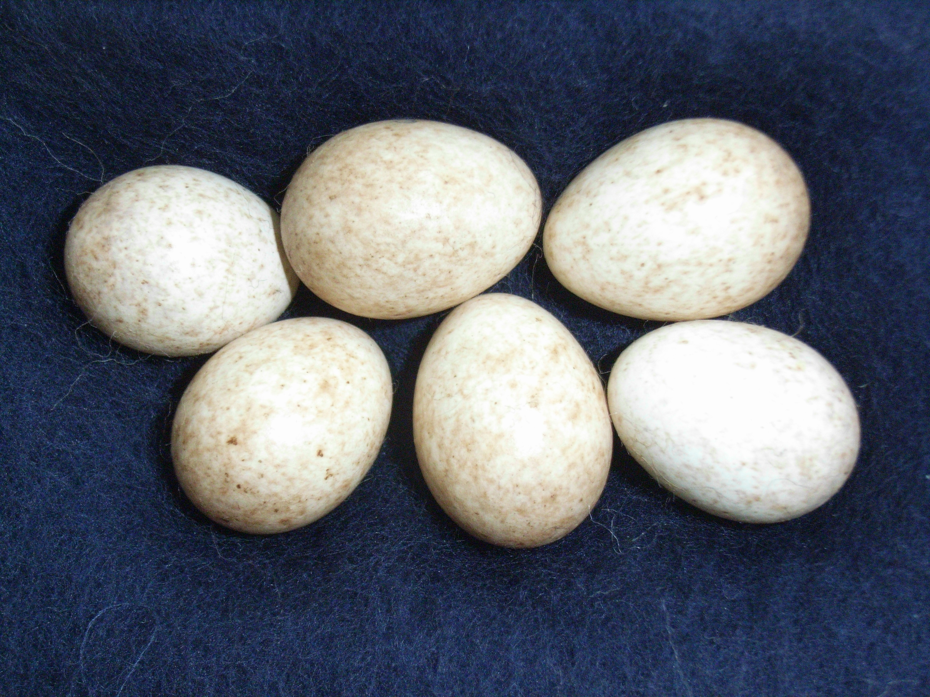 Erithacus rubecula eggs